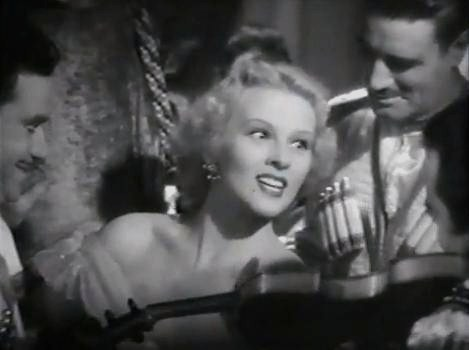 Ilona Massey in Balalaika (1939) - trailer (cropped screenshot)